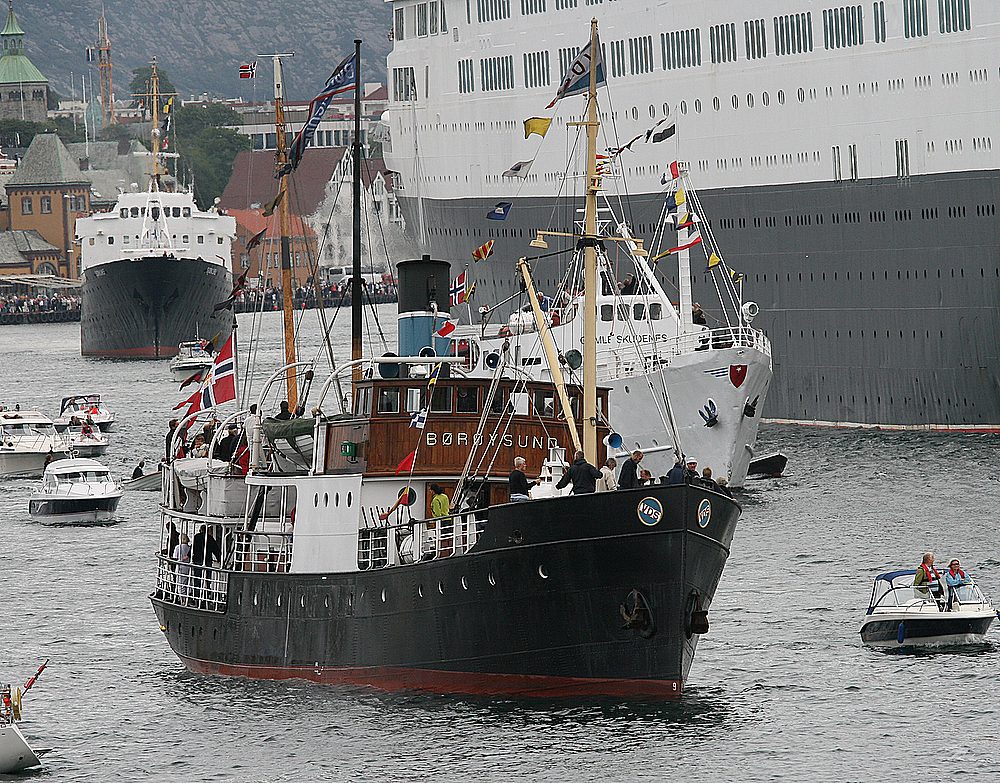 Norwegian steamship SS Børøysund built in 1908. Photo is taken in Stavanger, 2008Norsk bokmål: Lokalruteskipet DS «Børøysund» bygd i 1908. Bildet er tatt i Stavanger, 2008 under arrangementet Nordsteam